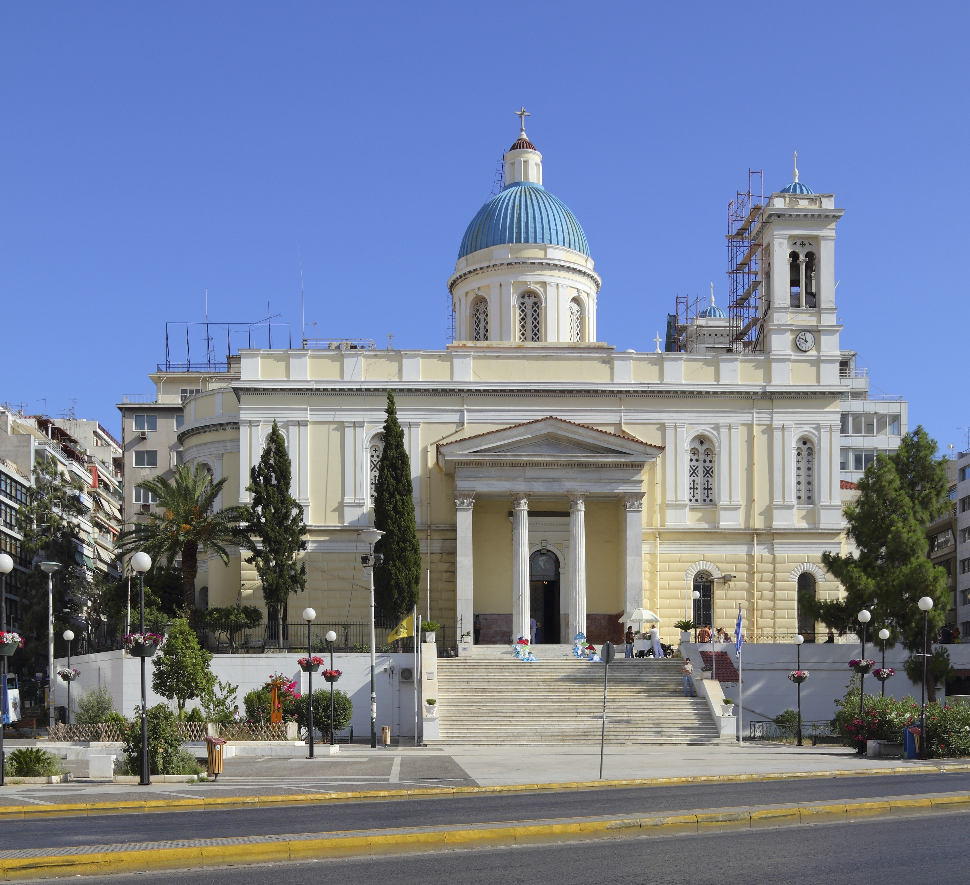 Church of St. Nicholas in Piraeus (Attica, Greece)